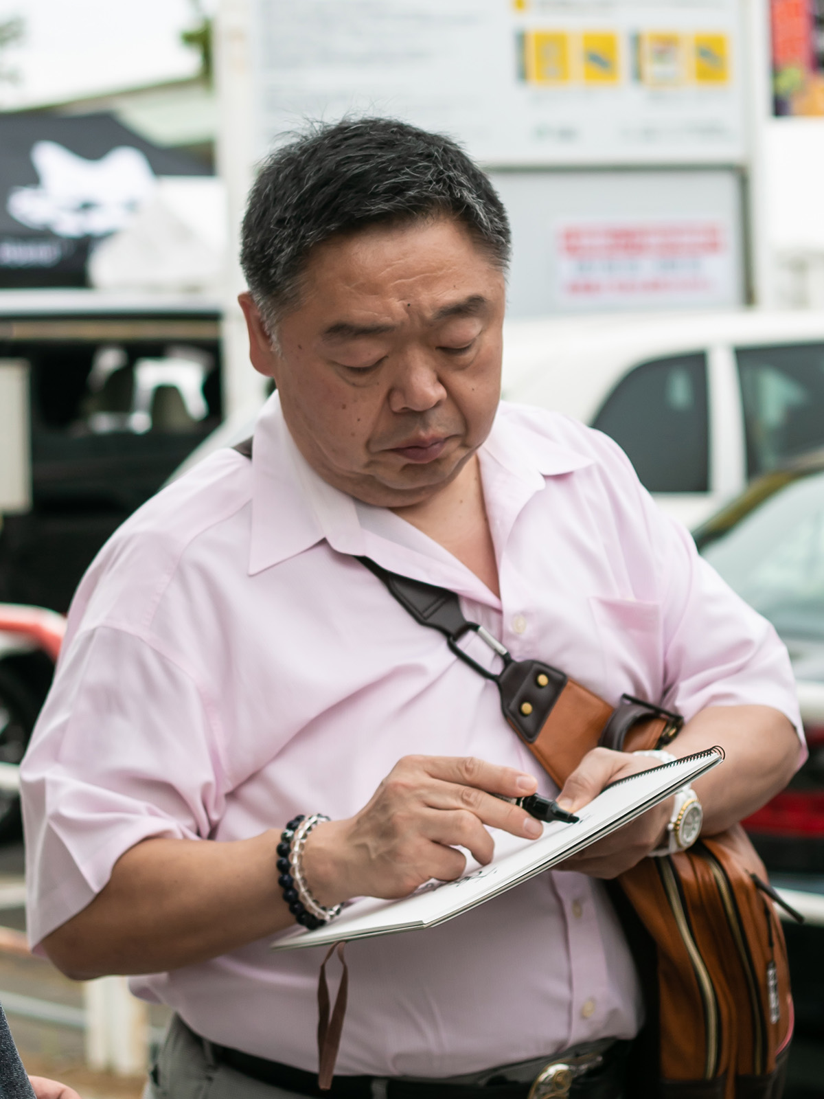 Takamisugi Takakatsu (head coach of Chiganoura stable).